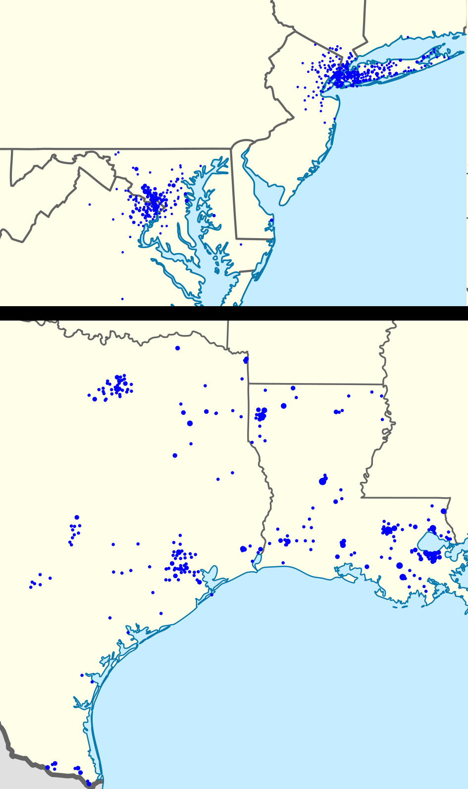 Footprint of Capital One retail branches. Cities with more than one branch have progressively larger points.